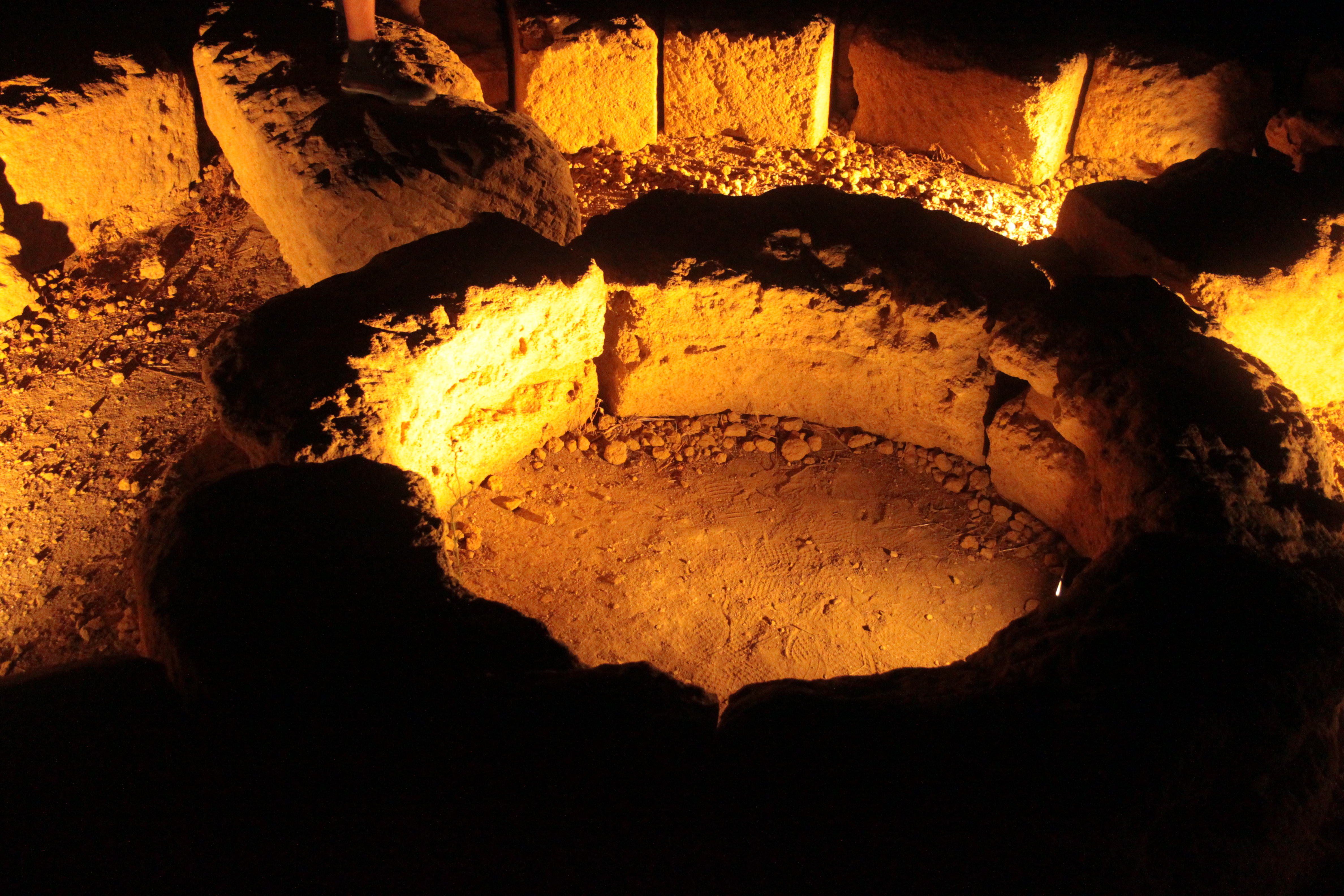 A pit of the type known as a bothros, an altar of the ancient Greek religion dedicated to chthonic deities and the cult of heroes, preserved in the Valley of the Temples in Agrigento.